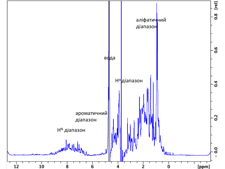 1H NMR spectra of the CaM protein